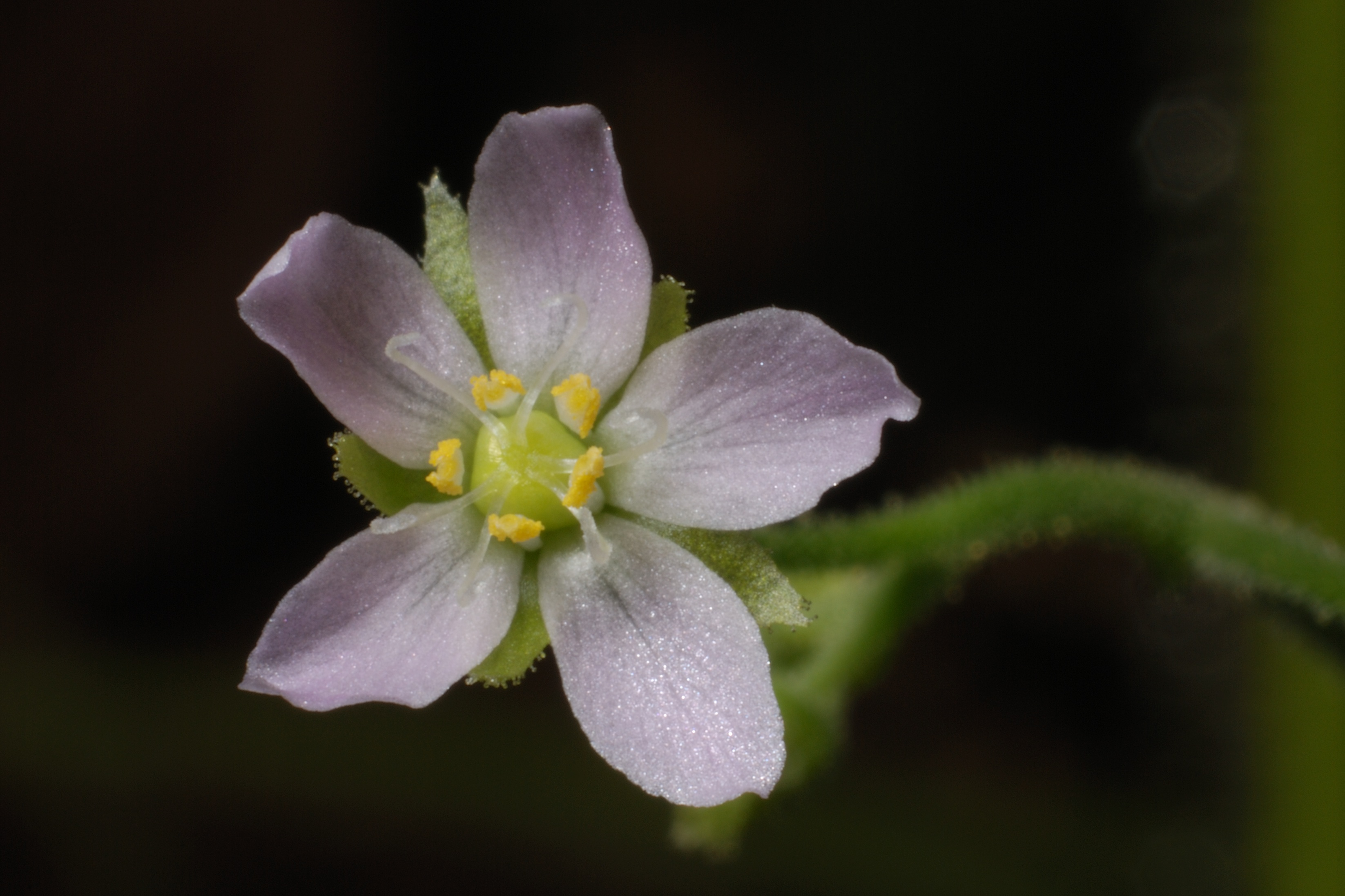 Drosera indica